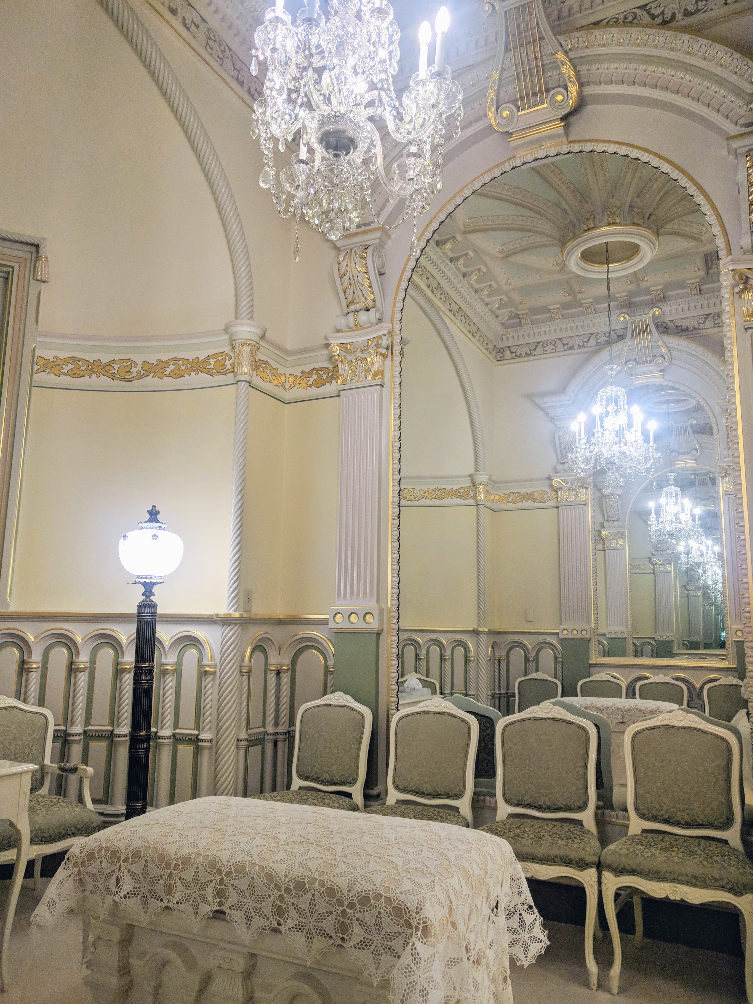 Sealing room 1 in the celestial room of the Salt Lake Temple is used for marriage ceremonies